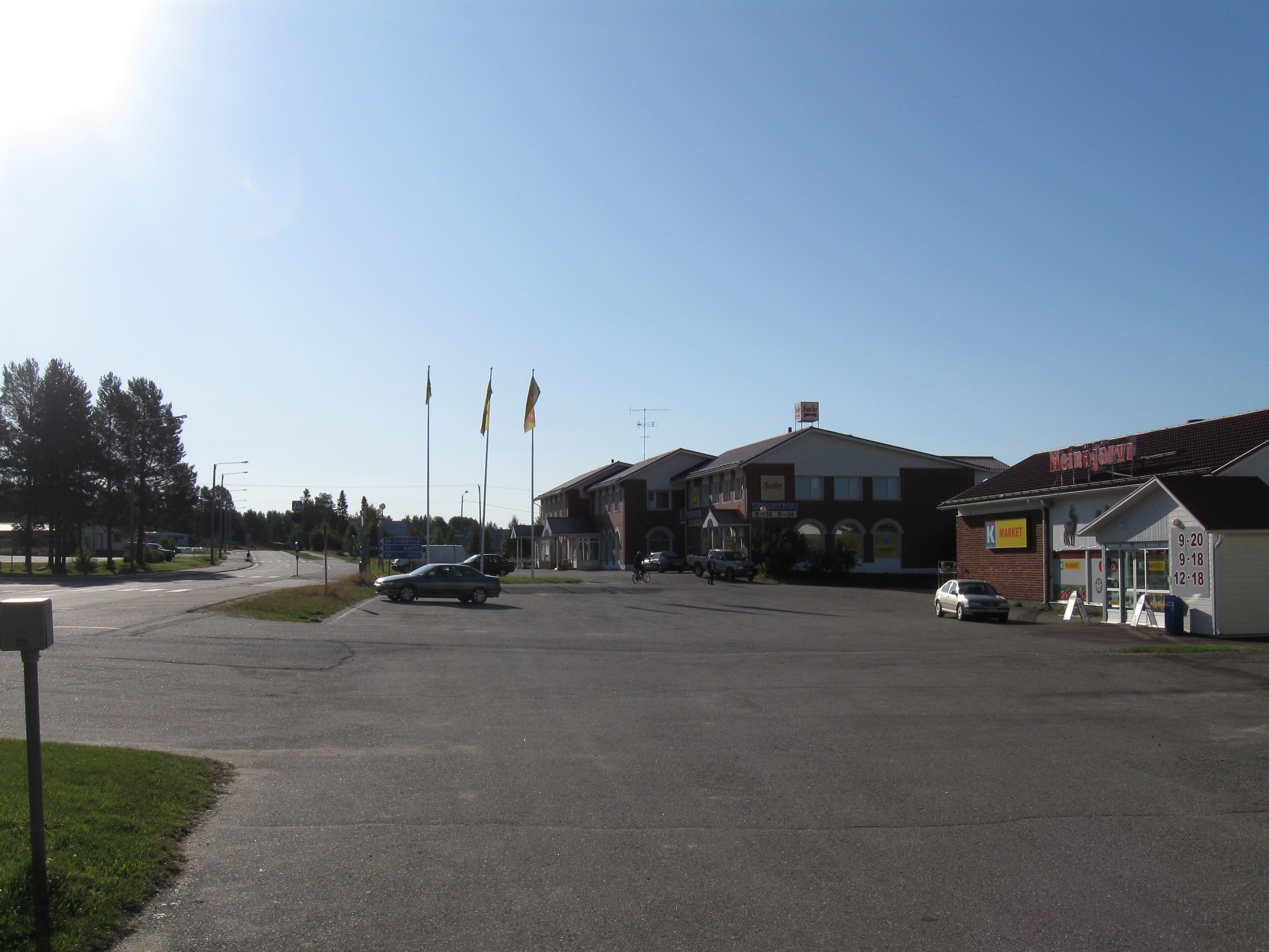 The centre of the Savukoski municipality, Finland. Regional road 965 on the left.